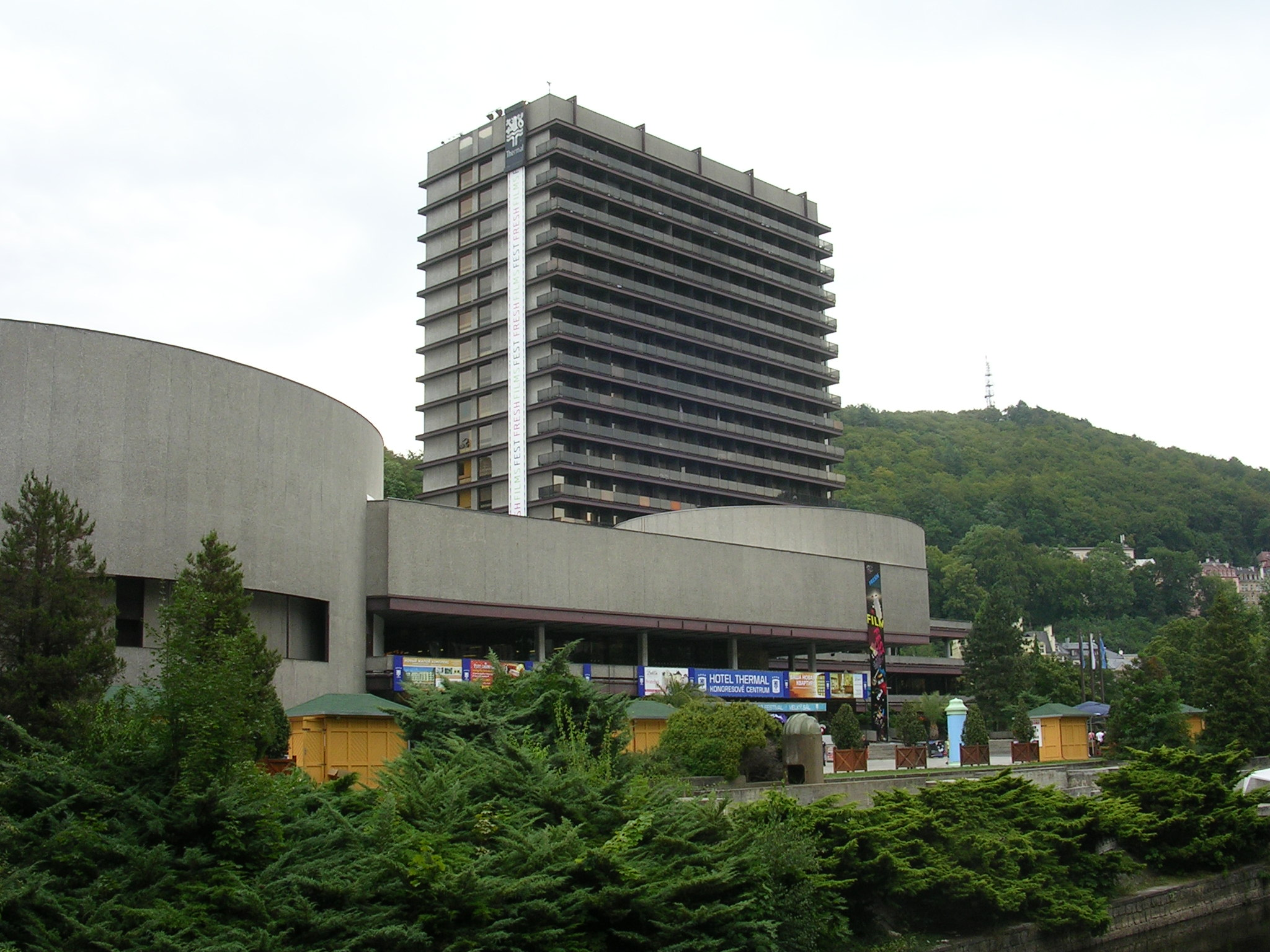 Karlovy Vary, the Czech Republic. Thermal Hotel.